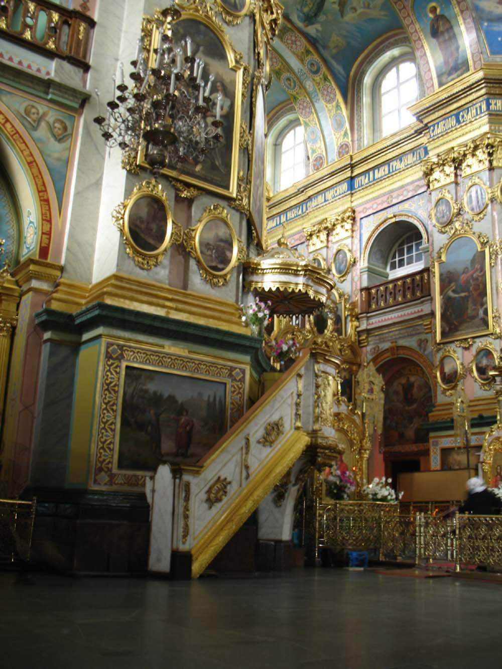 Holy Dormition Pochayiv Lavra - Western Ukraine